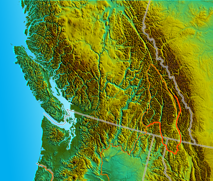 based on South BC-NW USA-relief.png which is in Wikimedia Commons